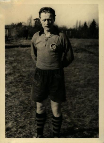 German footballer Kurt Ehrmann in the dress of Karlsruher FV